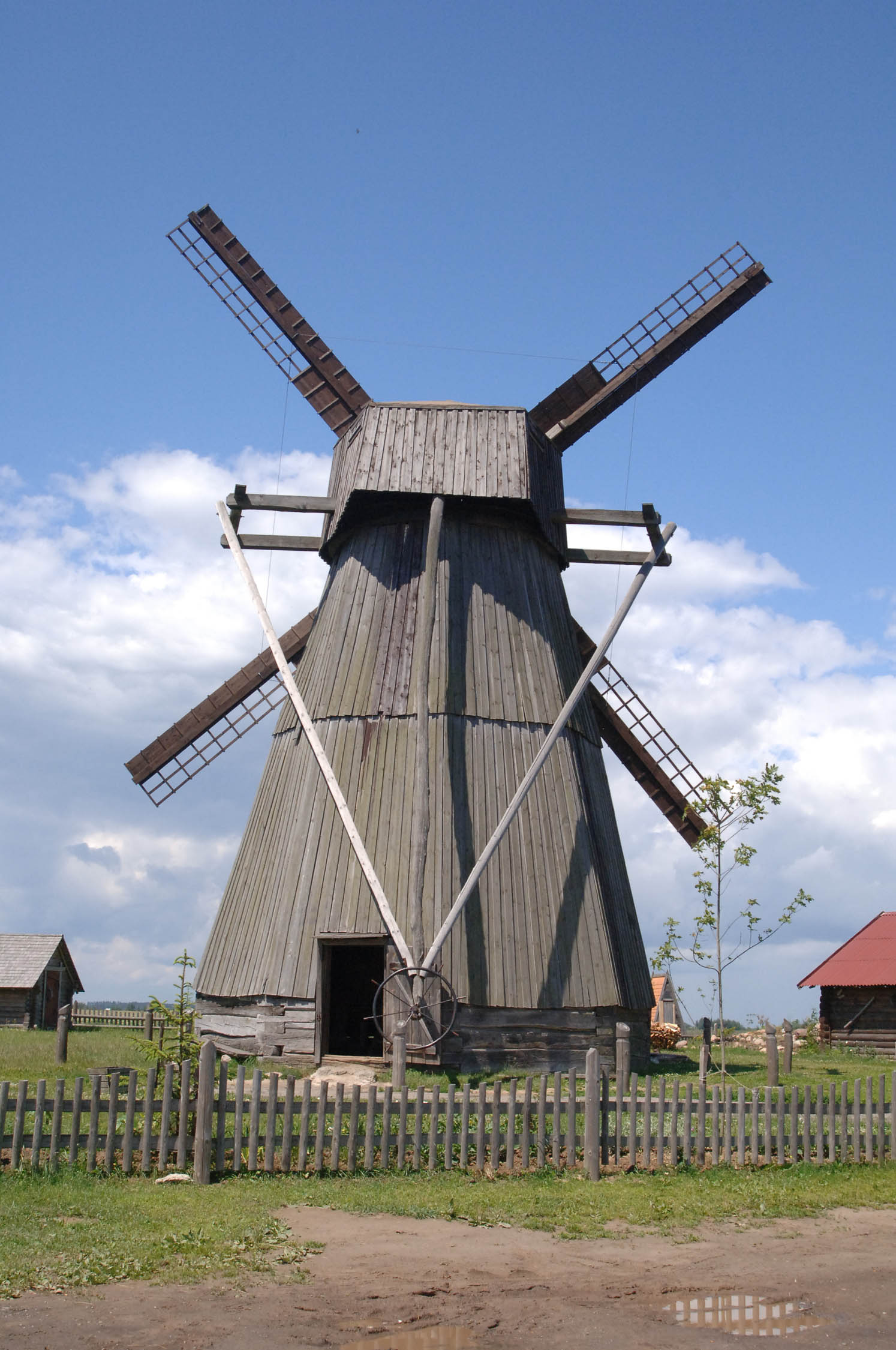 THIS WINDMILL STANDS HIGH ON A HILL OVERLOOKING THE VILLAGE